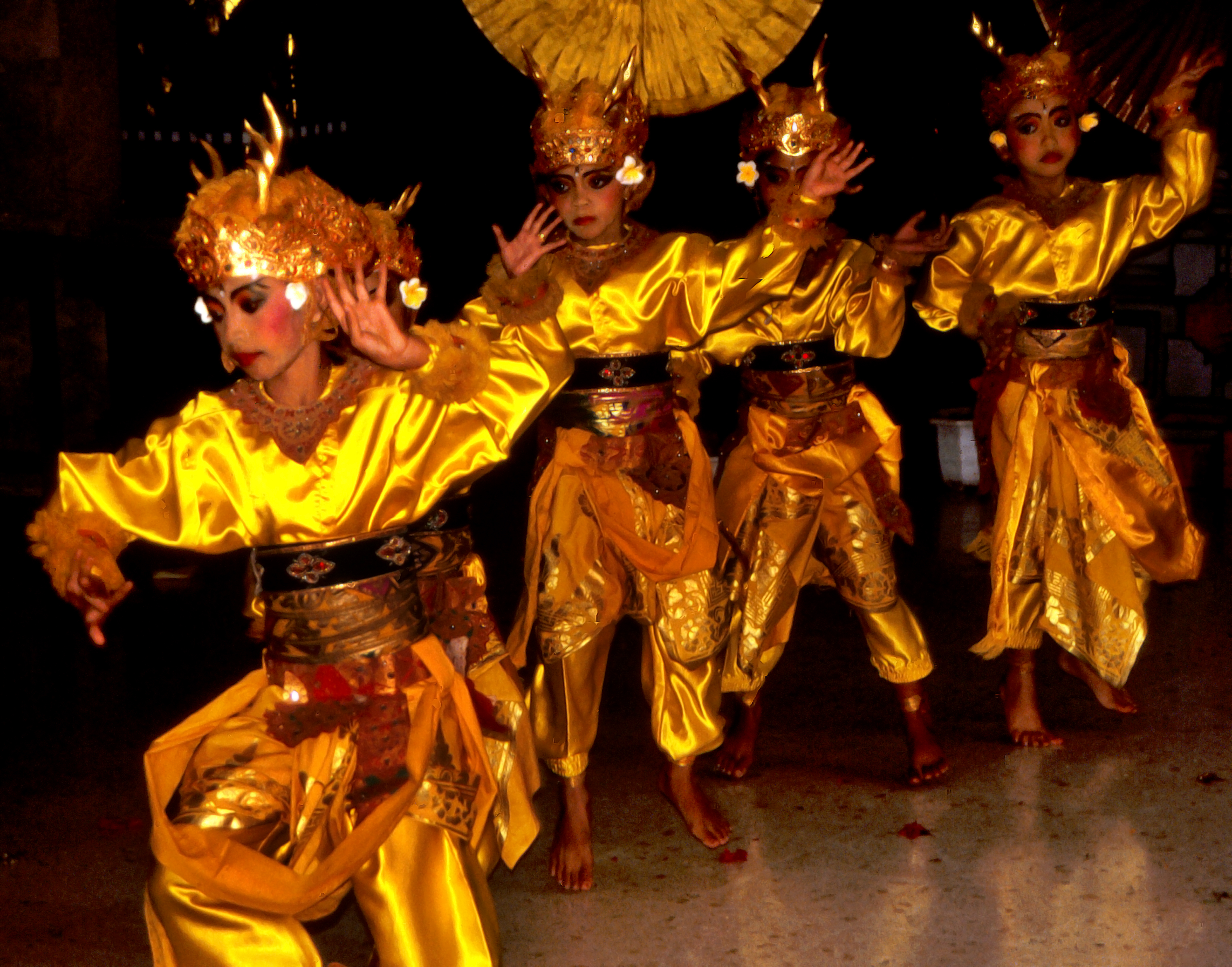 Photographed in Bali in 1998, this was not an organised tourist display. Such was their pride, I was literally dragged in off the street to see this event (for free). It was evident that the dance had been prepared and presented with a great deal of energy and enthusiasm. (It was not uncommon to see Balinese children practicing dance moves at their homes.) Just look at the serious expressions on the faces of the performers. The image is a scan of a slide / transparency taken using a CanoScan 8800F. The image was resurrected from a very badly underexposed (almost black) slide image. (The camera had a slow film, and the main, distant, illumination was the weak built-in flash.) The scan was made at 16 bits per colour channel. In Adobe Photoshop the levels and gamma were adjusted in two or three iterations - each time being careful to ensure that the shadows stayed black, and that the highlights were not bleached out. The resulting very grainy and noisy image was then smoothed using the Adobe Photoshop "Reduce Noise" Noise filter.